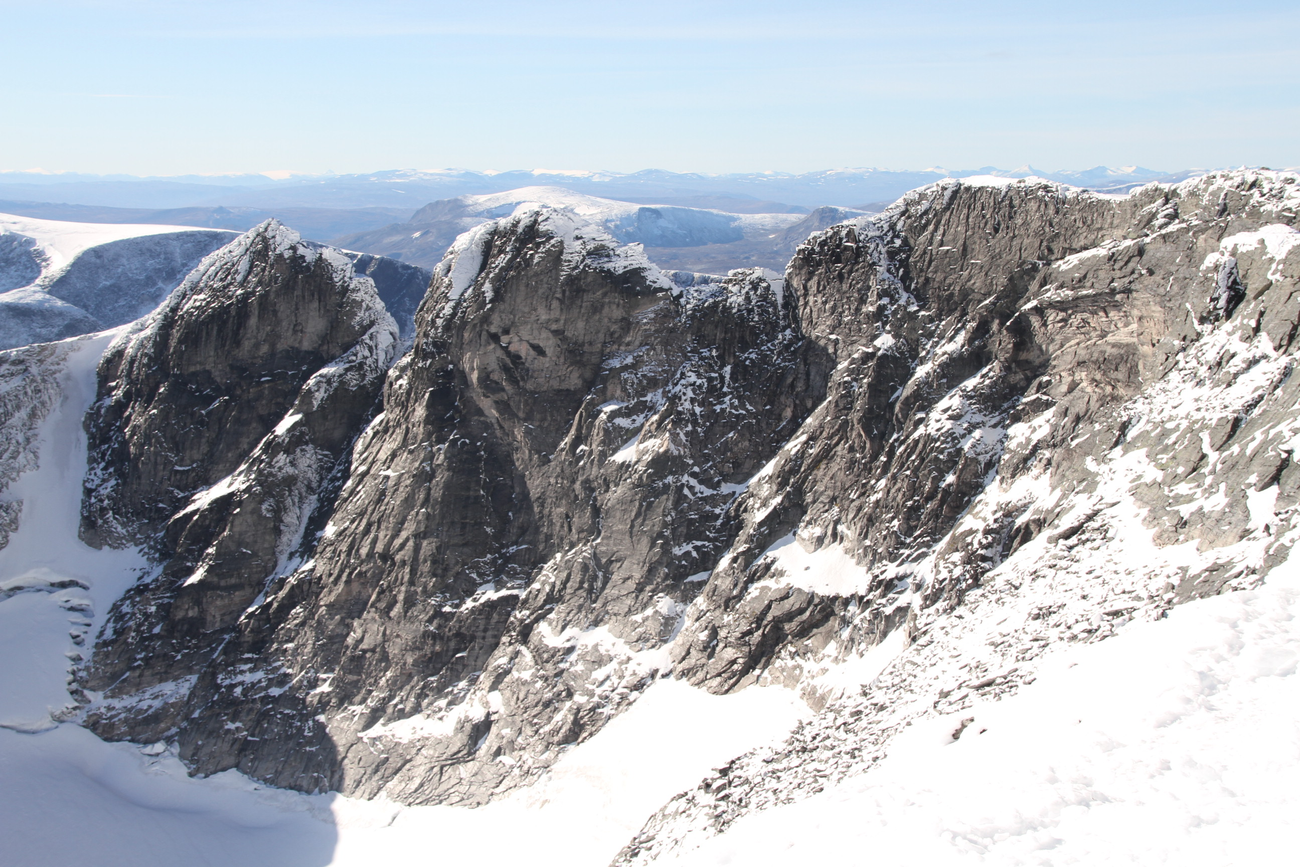 Image from atop the Snøhetta mountain, Dovre municipality in Oppland (Norway)